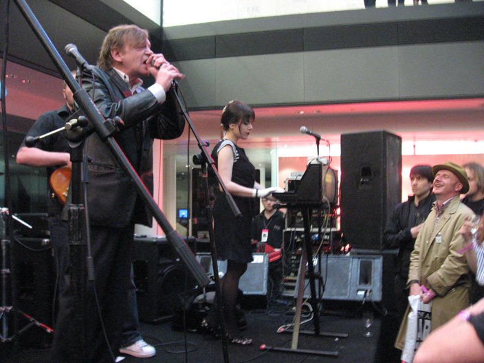 The Fall gig at art show - Bloomberg Space, London